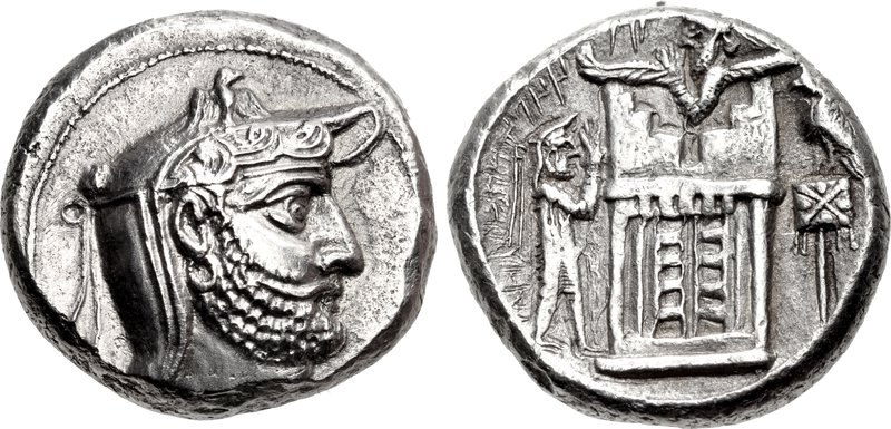 KINGS of PERSIS. Vādfradād (Autophradates) II. Early-mid 2nd century BC with Frataraka inscription: Aramaic wtprdt rtrk’ zy ’ly’ (= “Vādfradād [f]rataraka of the gods”) downward around left, fire temple of Ahura-Mazda